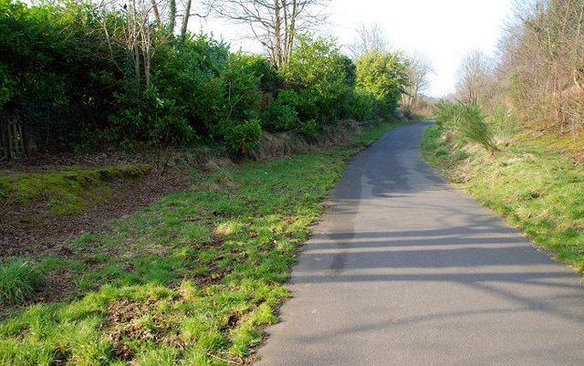 Former Neill's Hill station, Belfast (1). Neill's Hill was the next station after Bloomfield 449797 on the County Down line to Comber, Donaghadee and Newcastle. 58 years after closure the up platform survives (though mostly hidden by the bushes at middle left). The down platform has gone. The track is a path 685532 now renamed the "Comber Greenway". Continue to 685604.